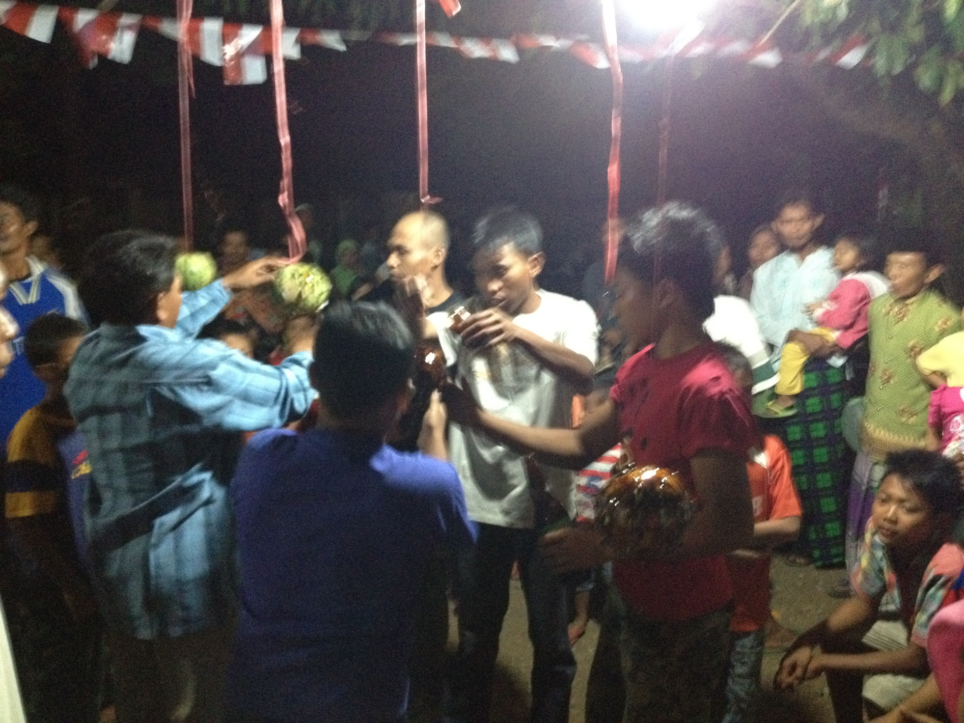 Lomba 17 Agustus 2012, Kedunggayam